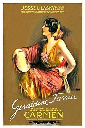 Movie poster for Cecil B. DeMille's 1915 production of Carmen